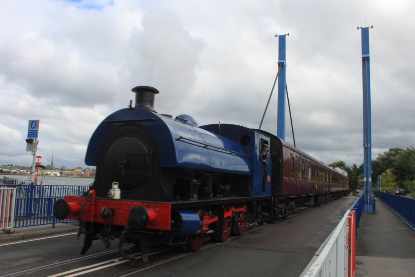 Hawthorn Leslie 0-6-0ST Linda eases its Ribble Steam railway train across the swing bridge over the entrance lock to Preston Docks.